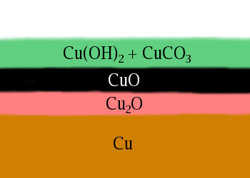 The structure of copper compounds composing verdigris.